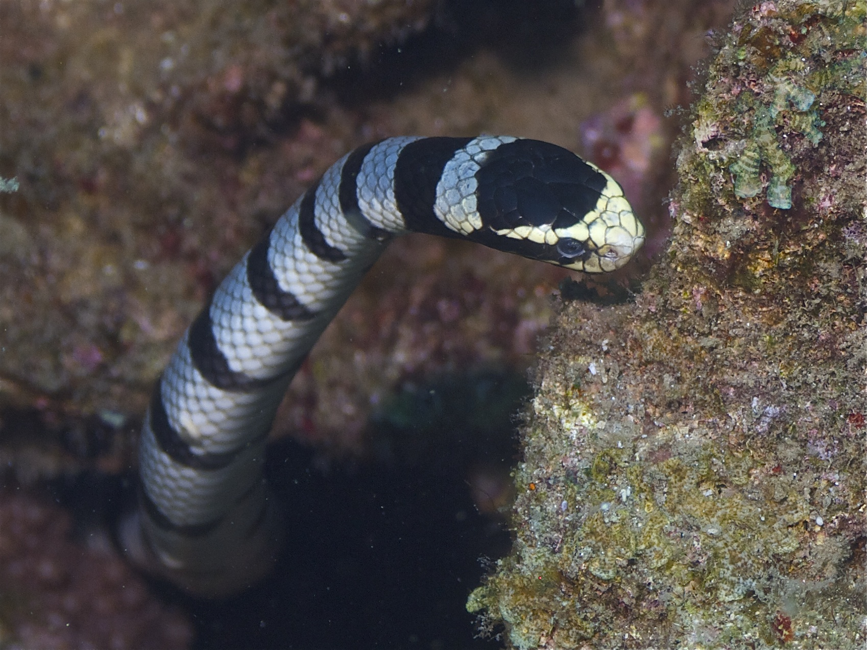 A yellow-lipped sea krait (Laticauda colubrina) in Zamboanguita, Central Visayas, Philippines.